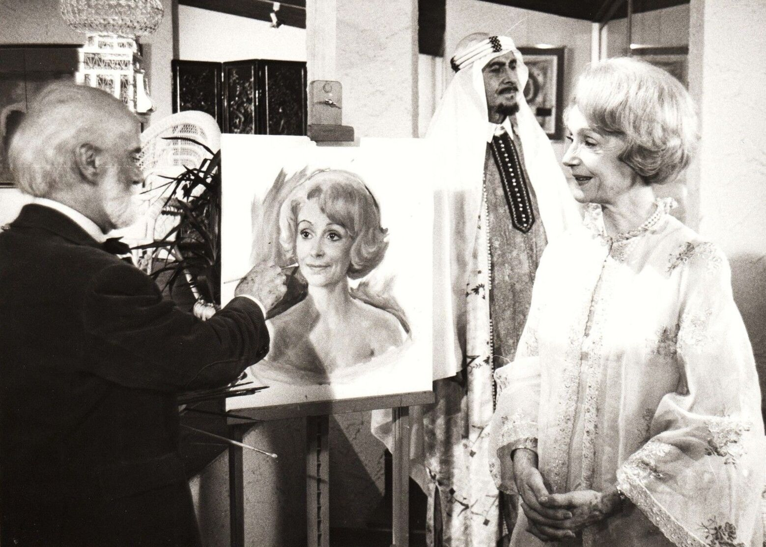 Vivaldo Martini, Swiss painter playing in the French serie Les dames de coeur in the 80's.